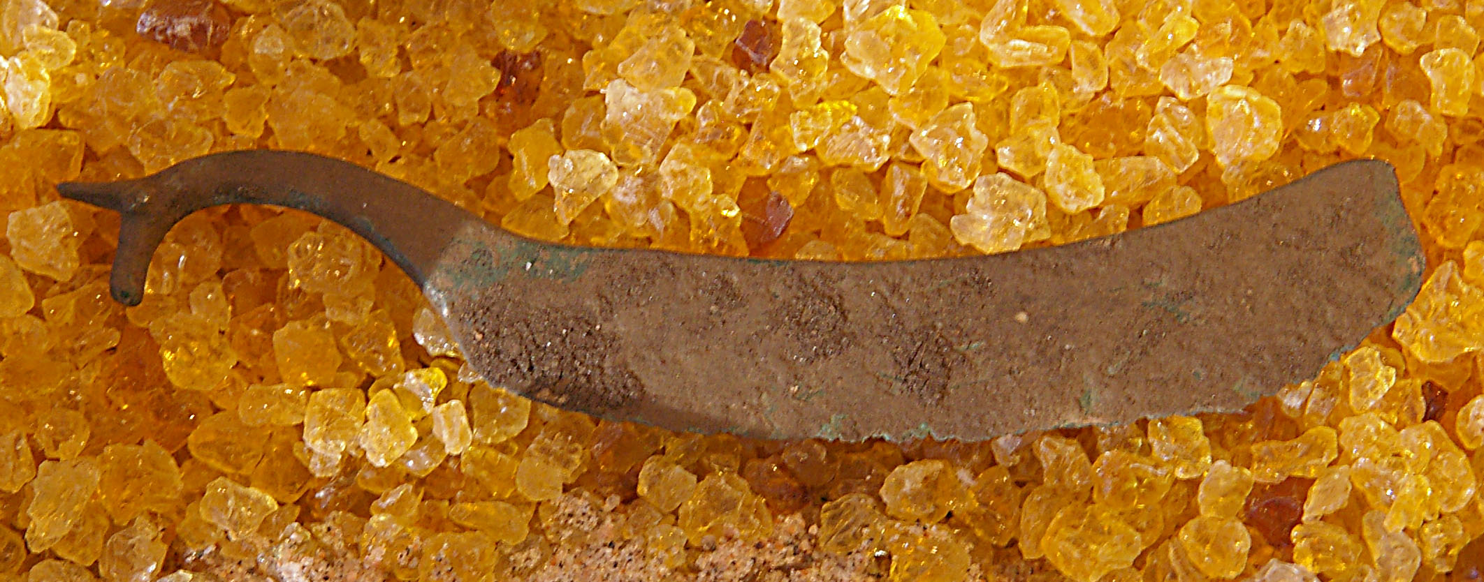 Ceremonial razor from the Bronze age. Retrieved from the Neolithic passage grave "Firse sten" (RAÄ-nr Falköpings östra 1:1) during the excavation of 2008.